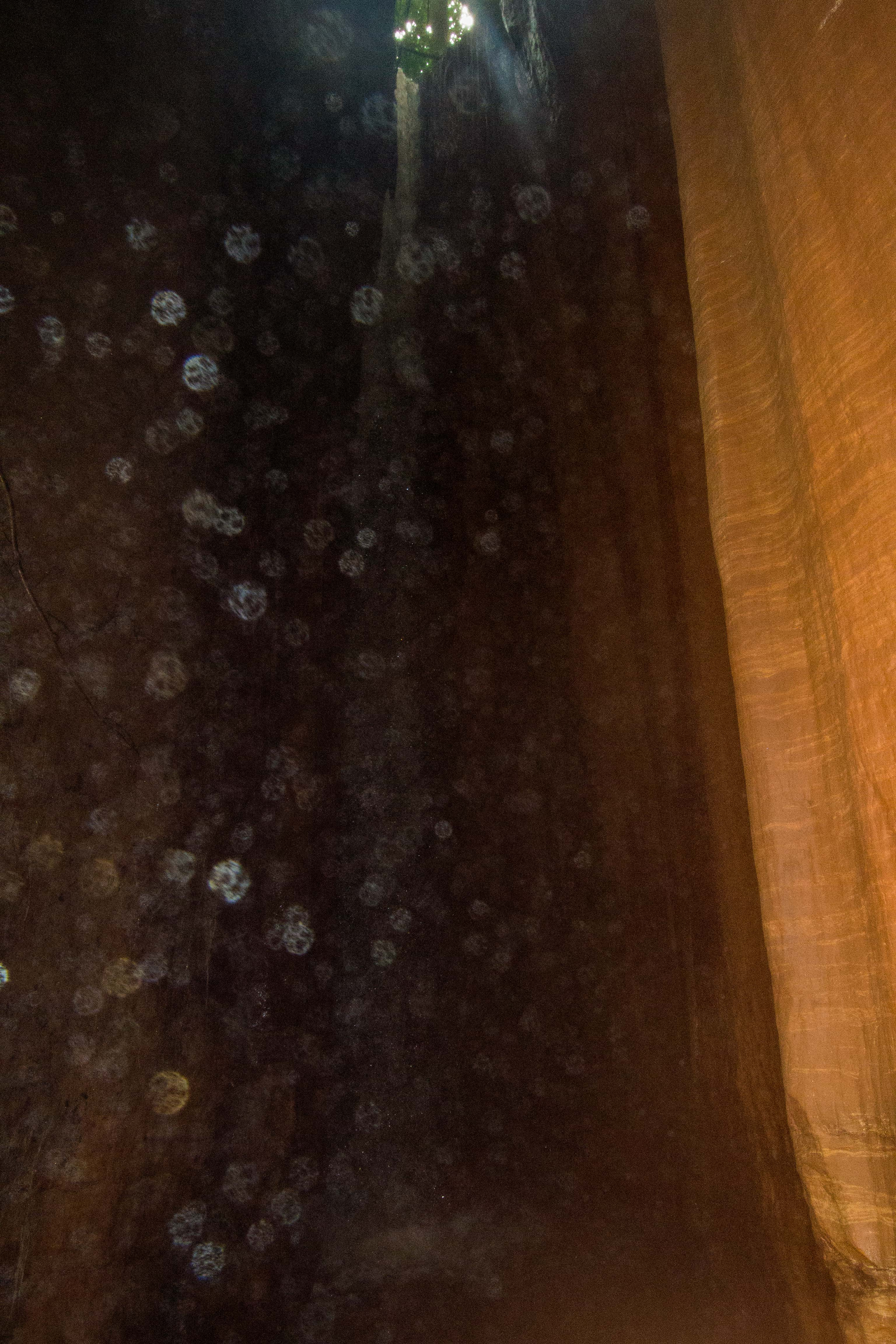 Water cascade over an outcrop of granite at Amaugwe village in Awhum, Enugu. The waterfall is 30m high and is believed to have healing powers and dispel evil powers.